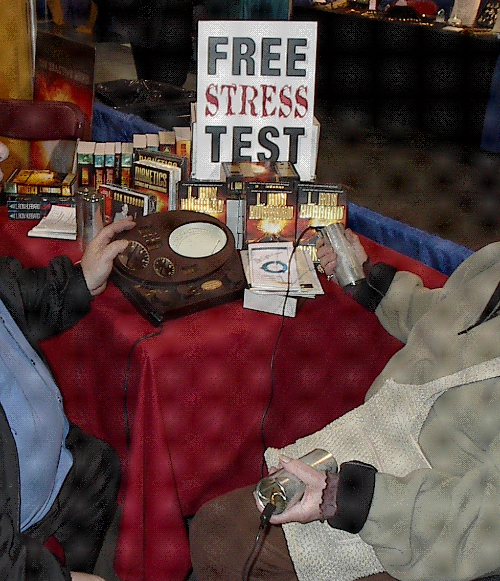 Scientologist demonstrating the e-meter as part of the "Free Stress Test" recruitment practice, taken en:2005-02-15 at a Psychic Fair. Cropped to remove personal details. Category:Scientology images